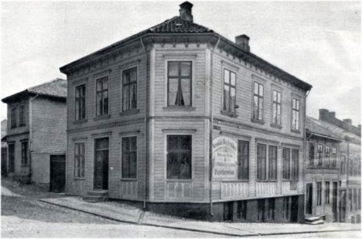 Headquarters for the newspapers Vestlandske Tidende, at the corner between Østregate and Hylleveien in Arendal, c. 1900